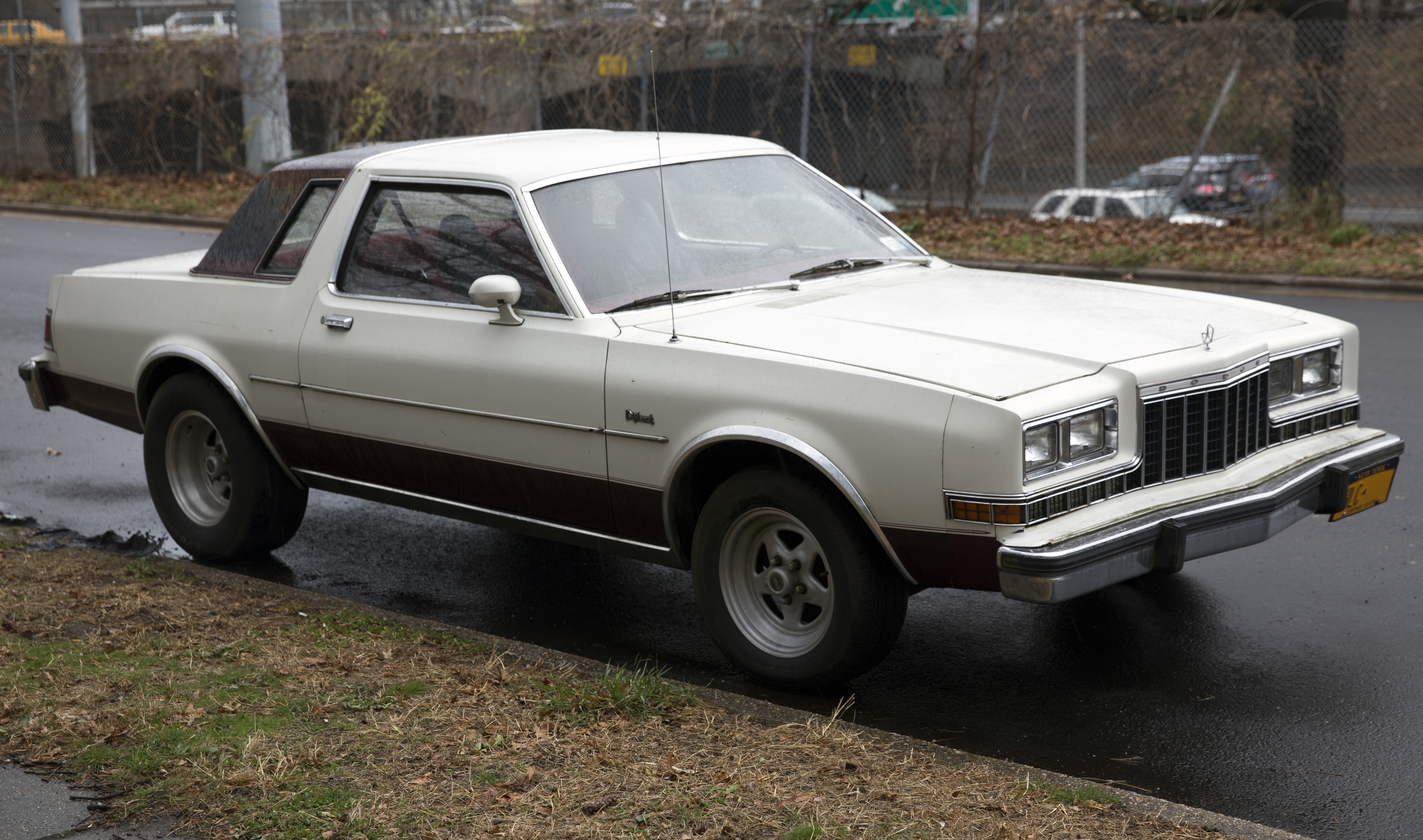 1981 Dodge Diplomat coupe, seems to be a slant-six built in St. Louis plant #1. Last year for this bodystyle.